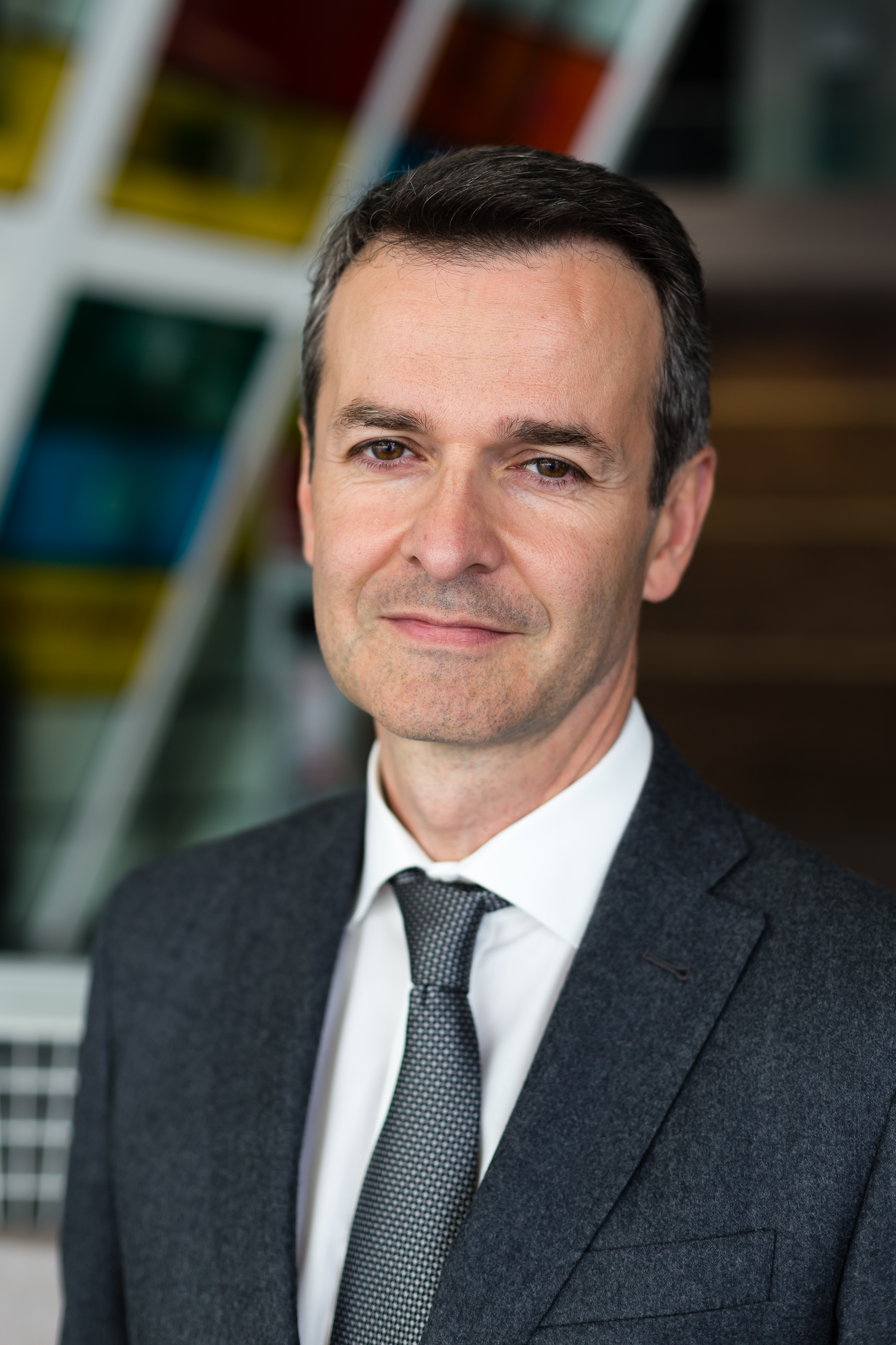 Emmanuel Couet, president of Rennes Métropole and mayor of Saint-Jacques-de-la-Lande, in les Champs libres at the inauguration of an exhibition at the Espace des sciences.